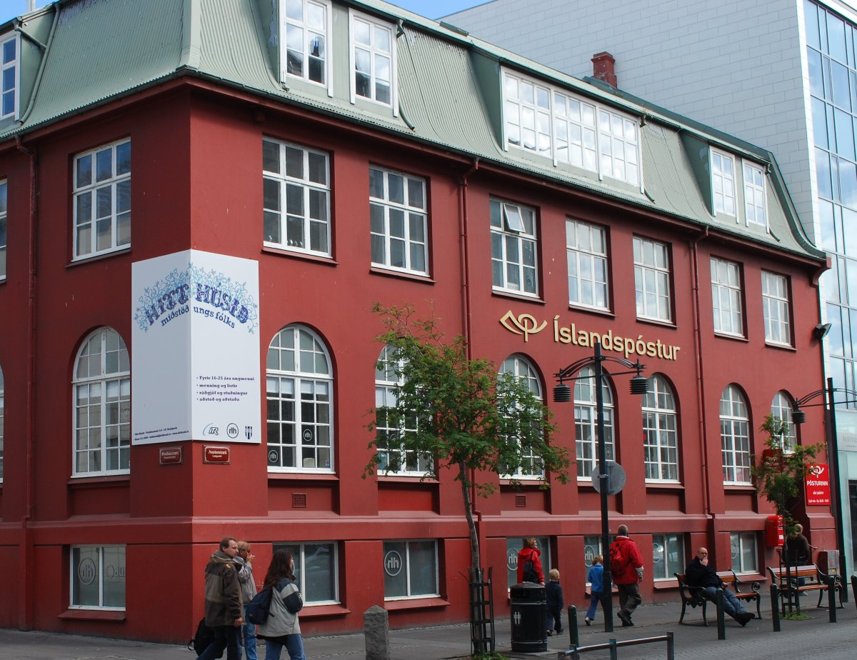 Íslandspóstur post office in Reykjavík city center, Pósthússtræti 5